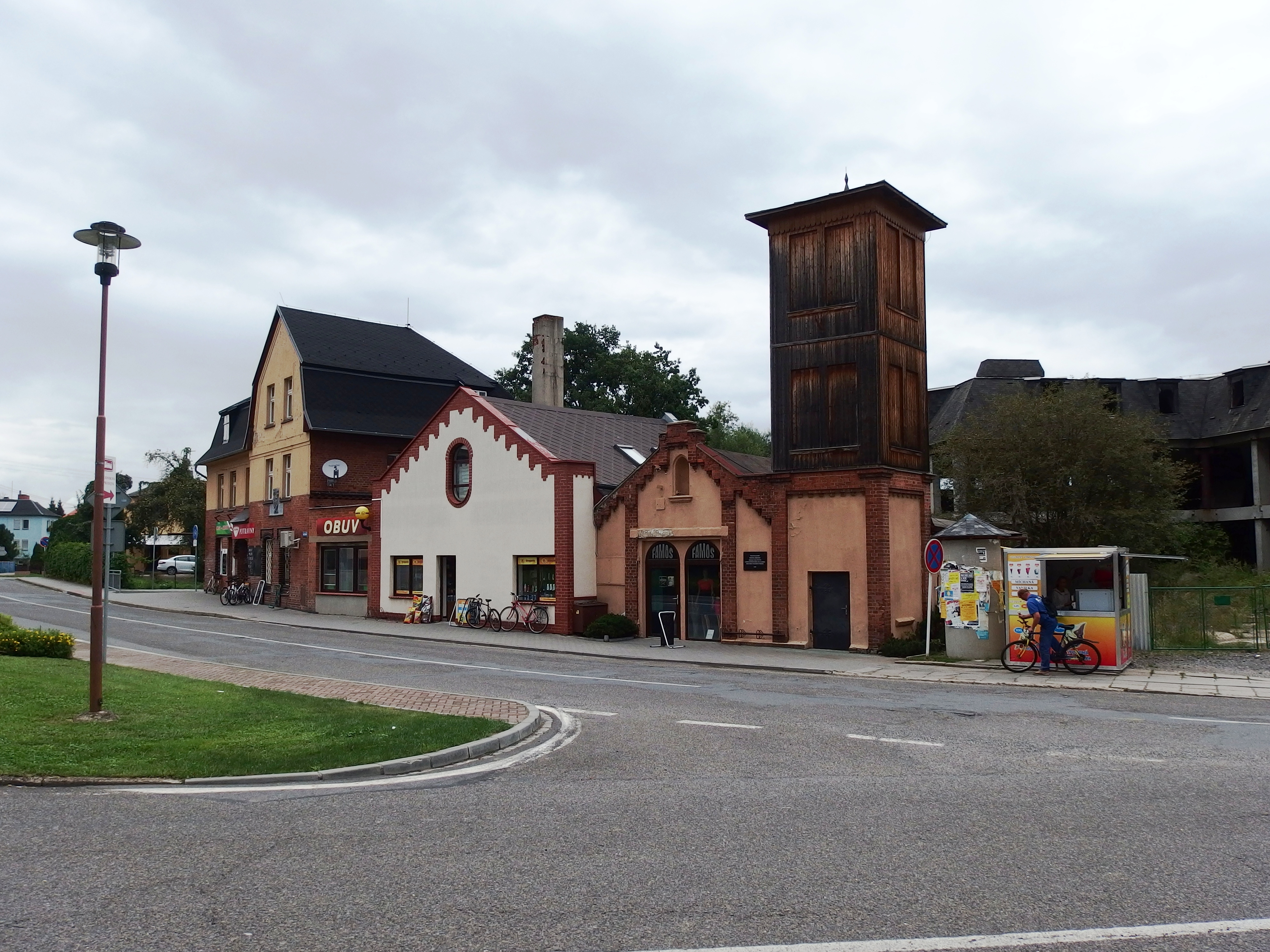 Kobeřice, Opava District, Czech Republic.